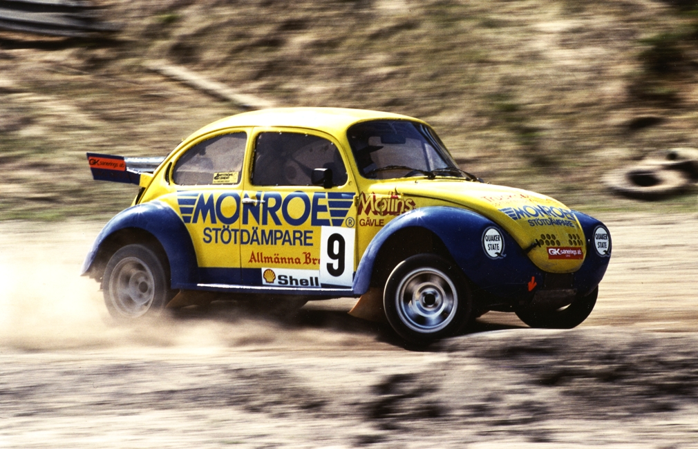 Swedish Rallycross driver Mikael Nordström and his 500+bhp strong VW 1303S Turbo 4x4 pictured during the 1985 Finnish round of the FIA European Rallycross Championship at the Ahveniston Moottorirata at Hämeenlinna.